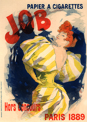 Affiche: Job - Papier a Cigarettes